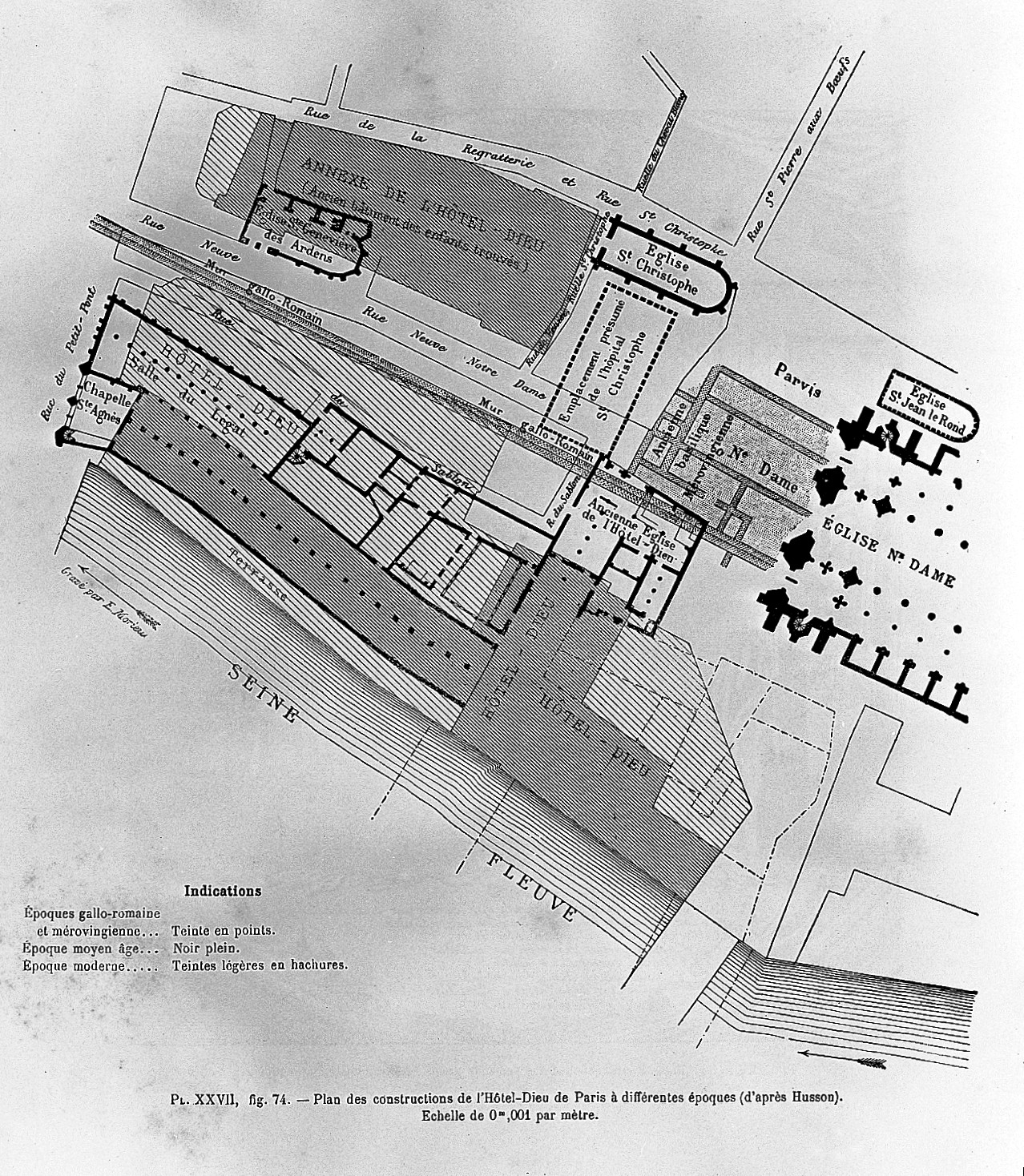 Plan de l'Hotel Dieu. General Collections Keywords: Institutions; France; Paris